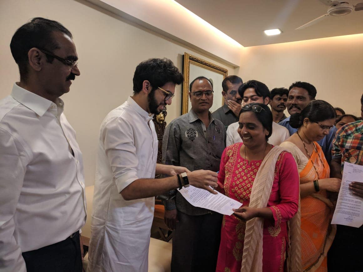 Residents of Mahul being given documents for houses at Matoshree Mumbai by Aditya Thackeray